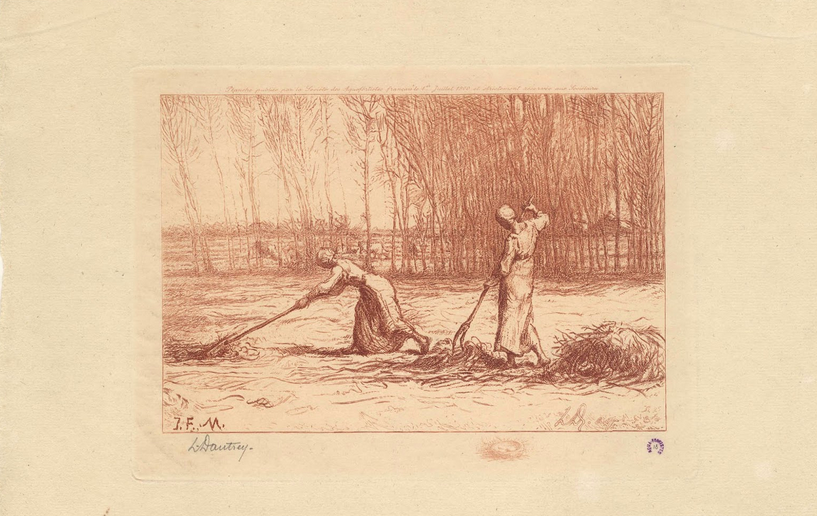 Two peasant women raking, etching after Jean-François Millet, printed in Paris for the Société des Aquafortistes français. Dim (plate): 14.5 x 19.8 cm.